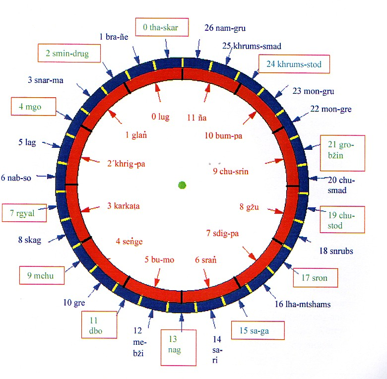 Partition of the ecliptic according to the Tibetan astronomy.Names of the 12 zodiacal signs insite the circle in red colour